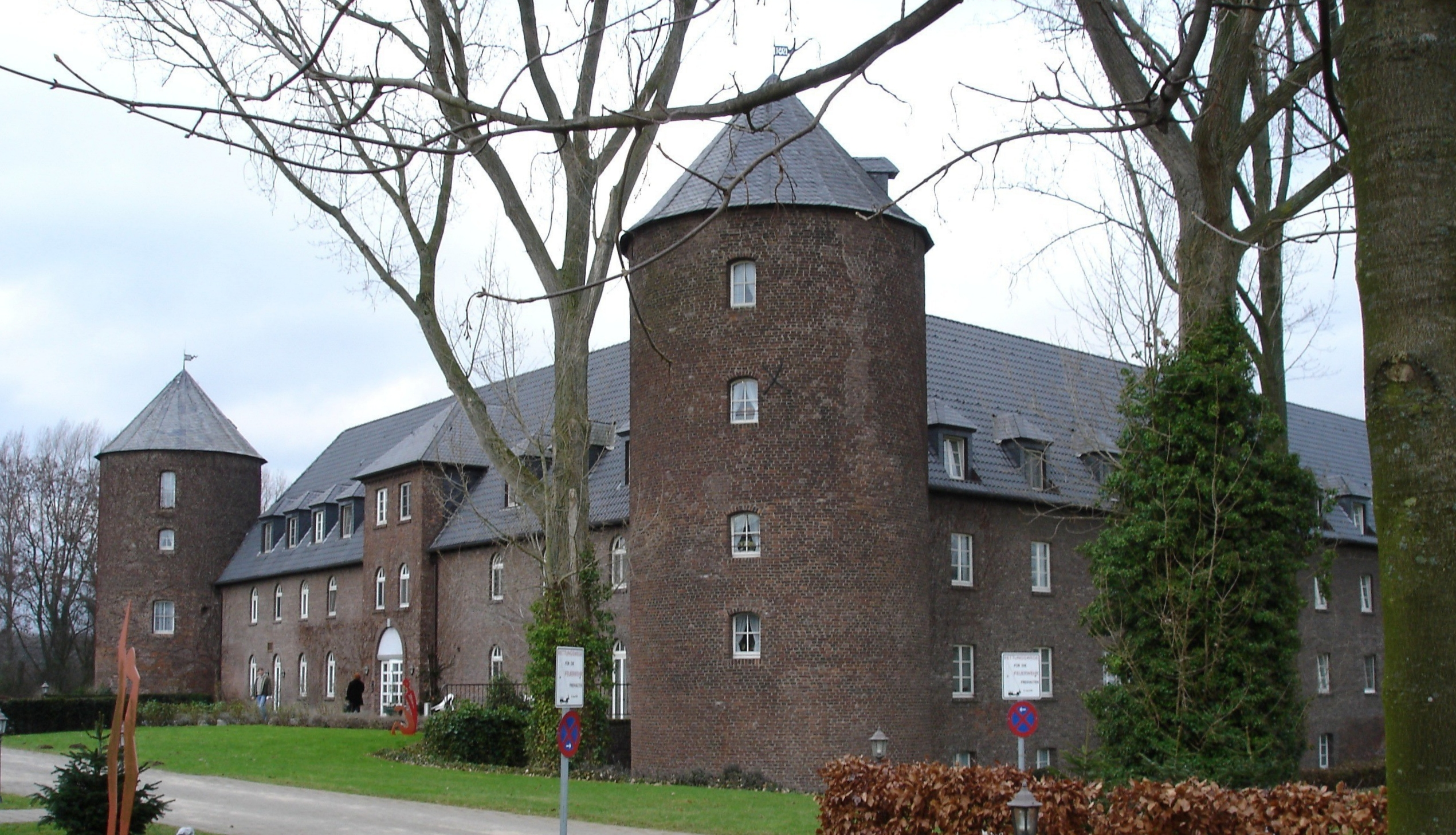 Haus Winnenthal in Xanten-Birten